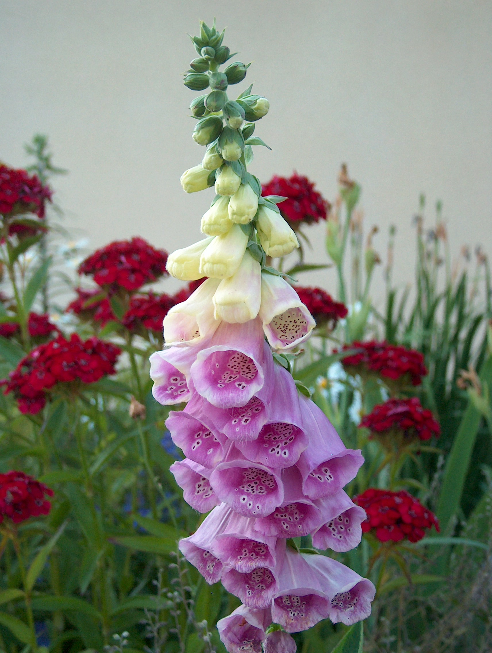 Digitalis purpurea blooming in Kerava, Finland